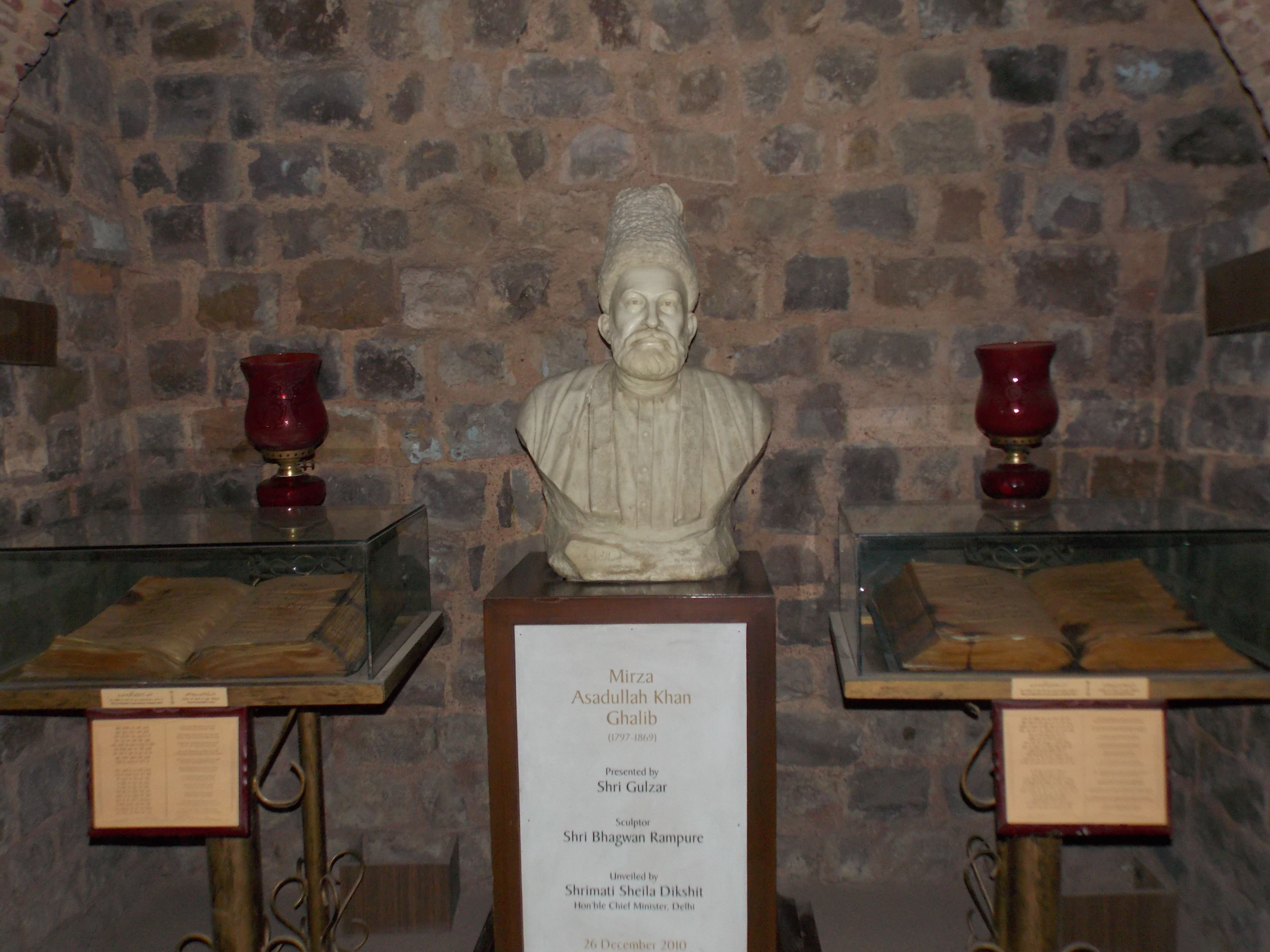 Sculpture of Mirza Ghalib